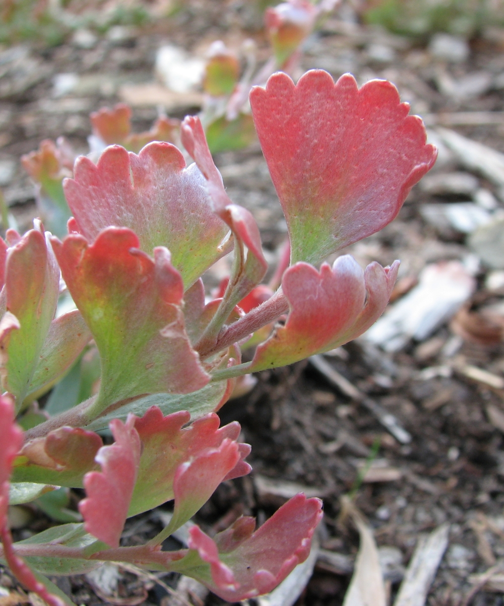 Adenanthos cuneatus (cultivated, labelled as Adenanthos cuneata f. prostrate) Royal Botanic Gardens Melbourne, Australia